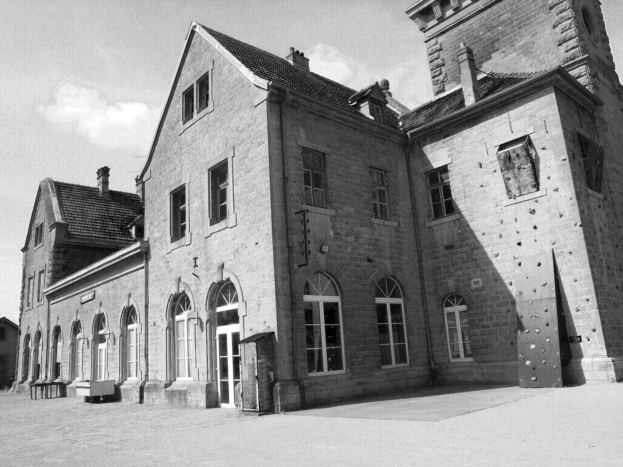 Gare Imperial de Chambrey, old train station of Chambrey, alter Bahnhof von Chambrey